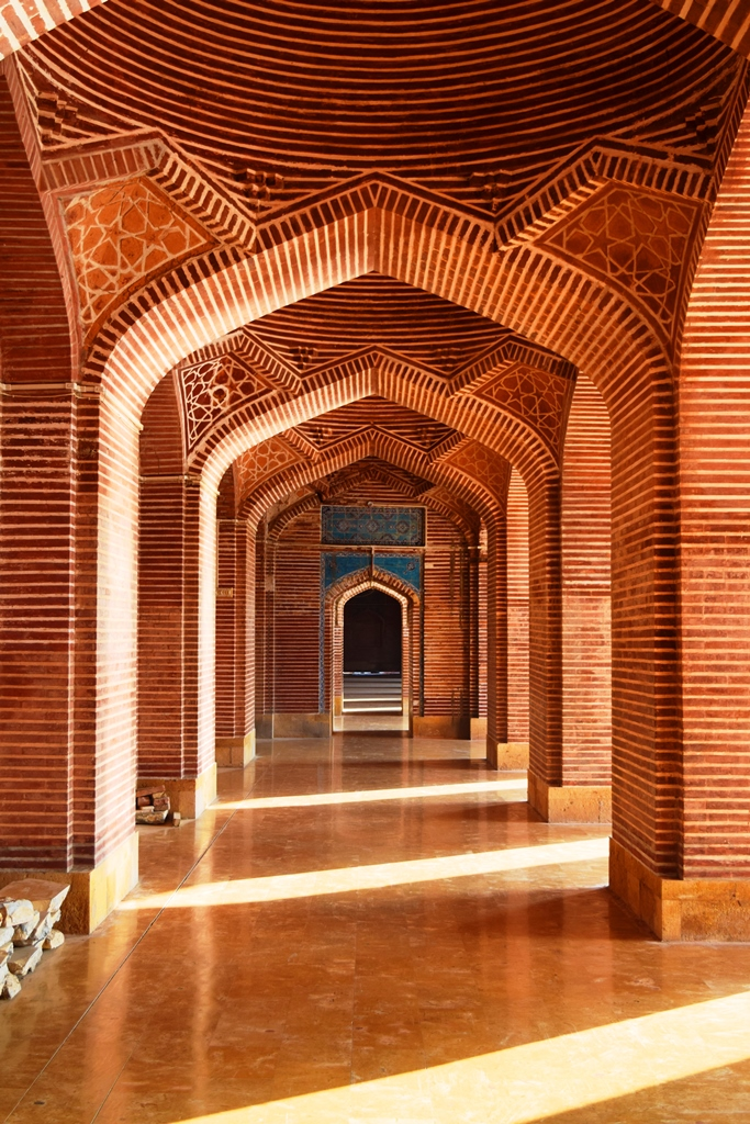 Shah Jahan Mosque, Thatta This is a photo of a monument in Pakistan identified as the SD-90